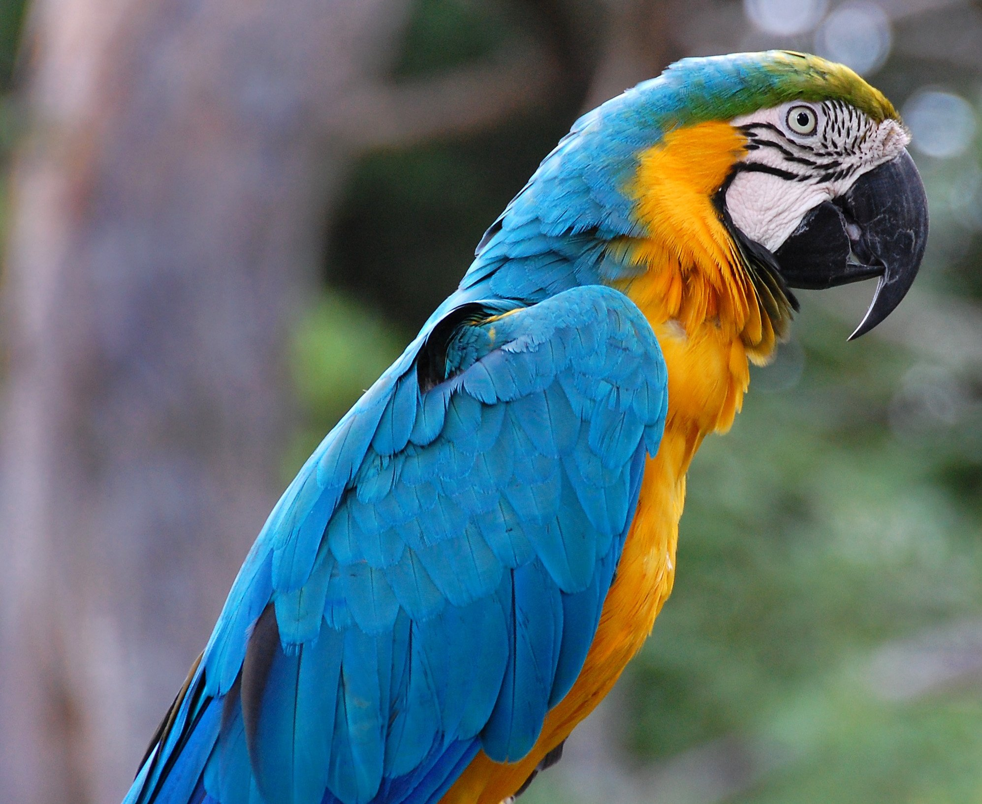 (Ara ararauna) Blue-and-gold Macaw at Birmingham Zoo, Alabama. USA.